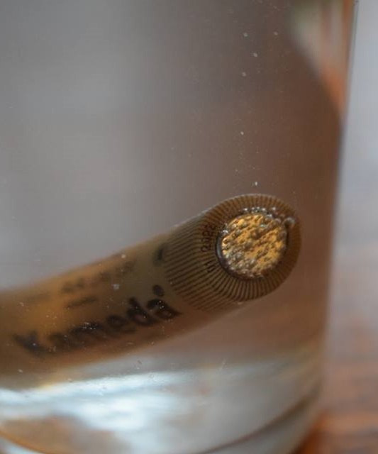 Electrolysis made with an AA-battery in a glass of tapwater with salt (NaCl)